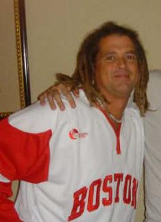 Image taken by me after a Carlos Vives concert. 2006 --F3rn4nd0 (Roger - Out) 18:59, 6 July 2007 (UTC)